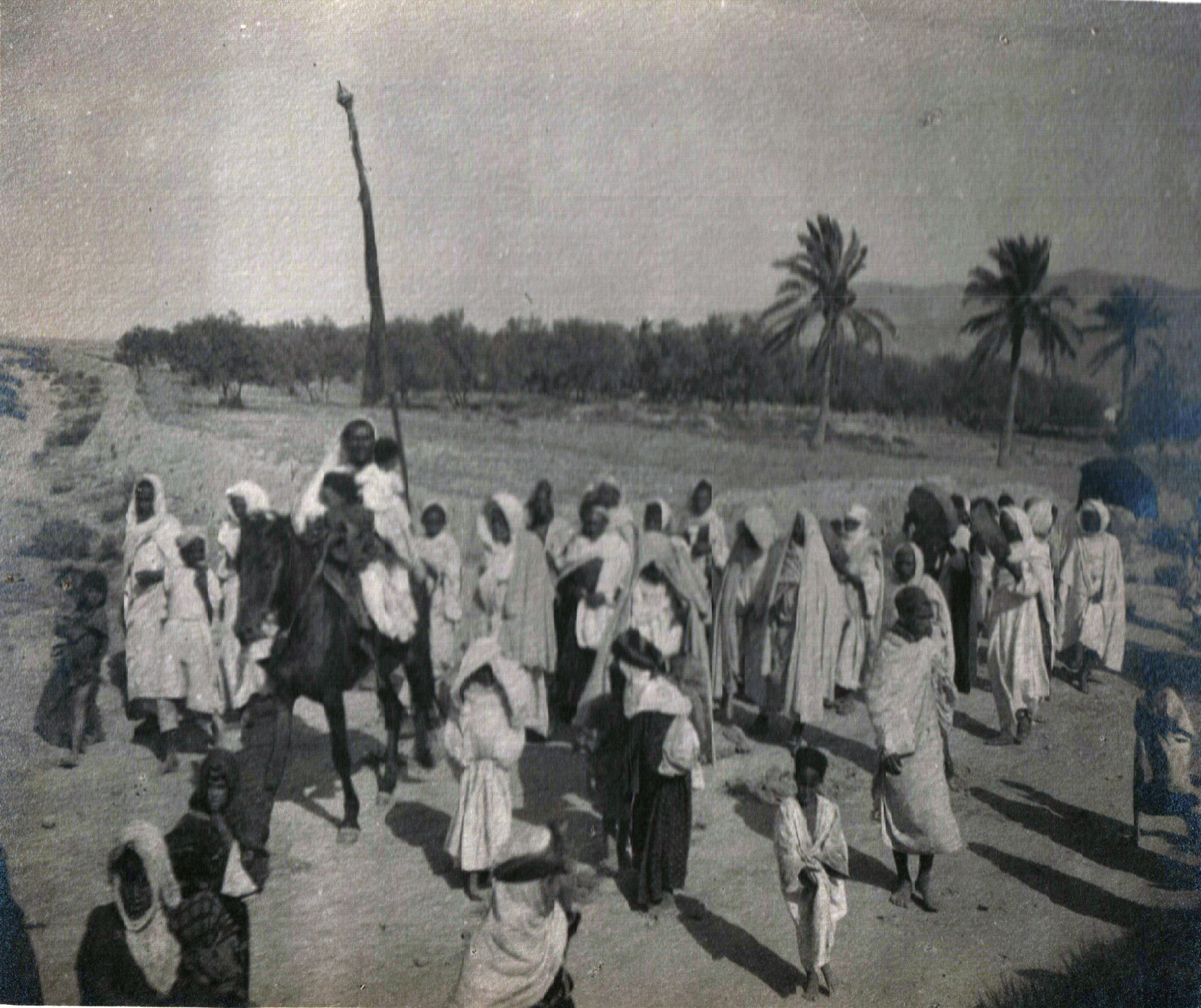 Views and photos of the Sahara desert and other regions in Africa.